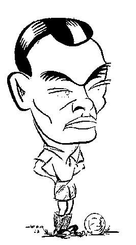 Lithuanian National football (soccer) team player Romualdas Marcinkus (1907-1944). Drawing by Lithuanian artist Aleksandras Čepas.